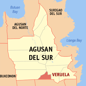 Map of the Agusan del Sur showing the location of Veruela